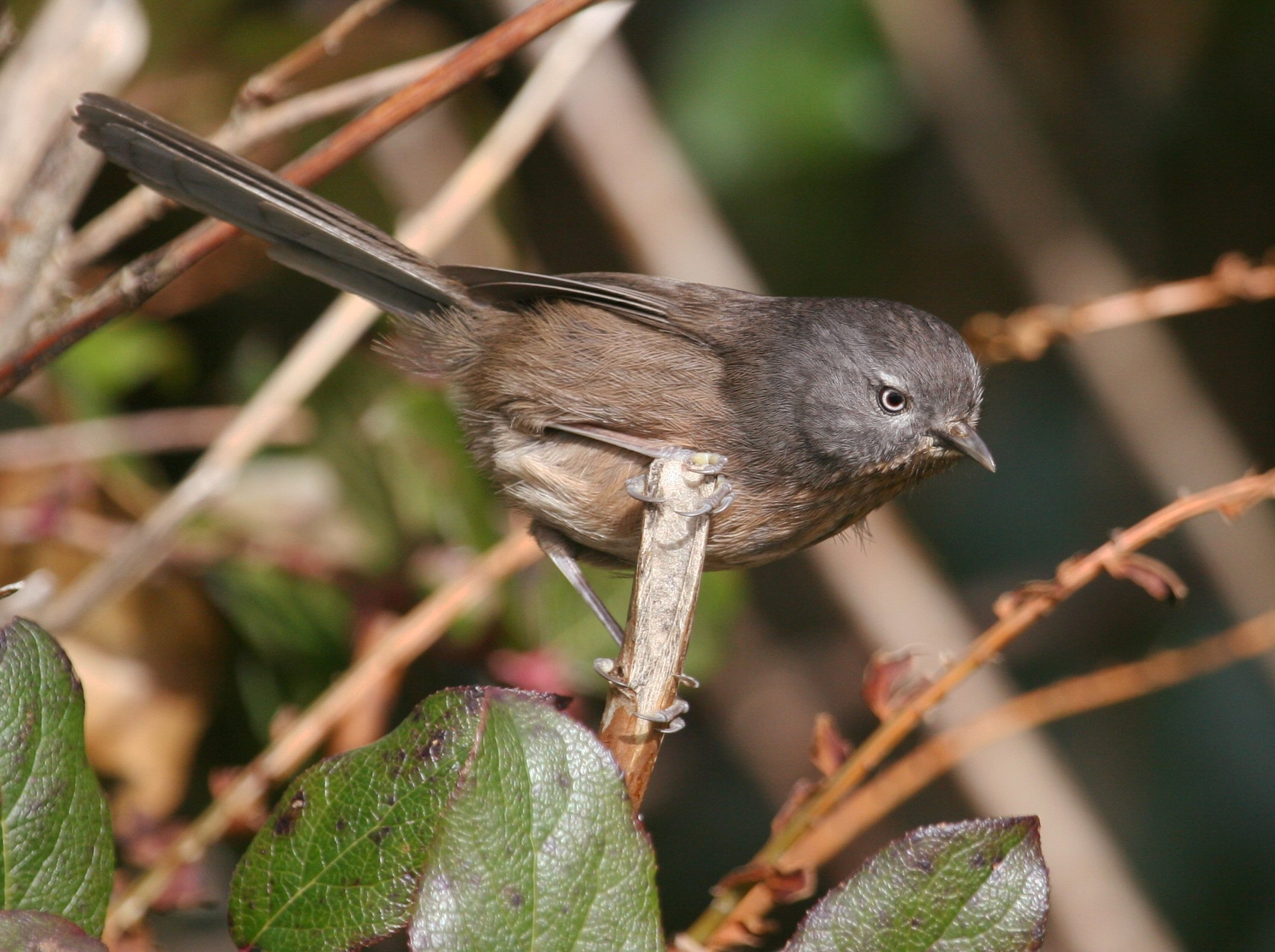 A wrentit.